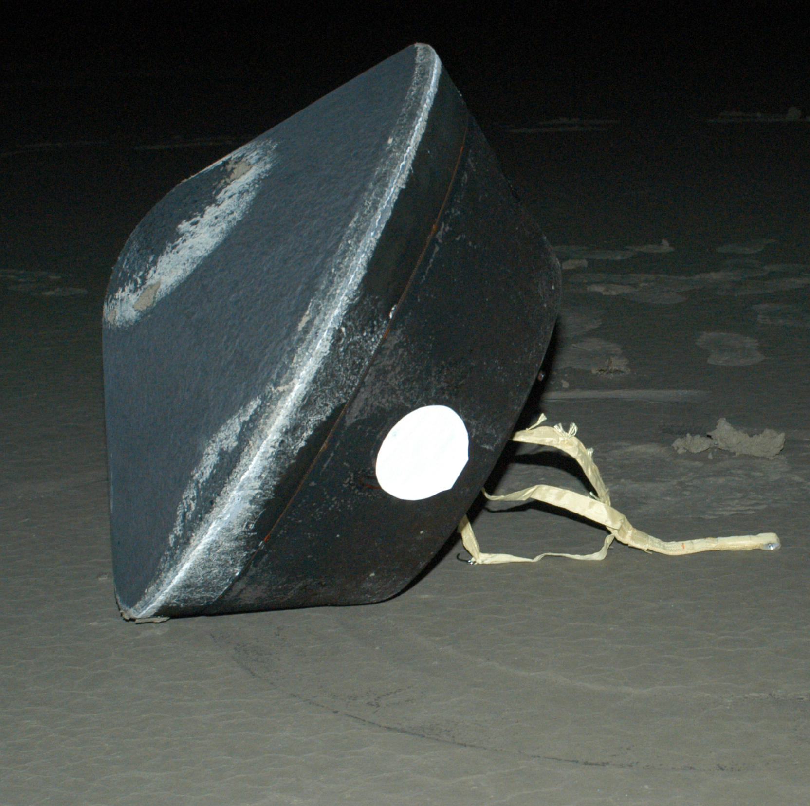 NASA's Stardust sample return capsule successfully landed at the U.S. Air Force Utah Test and Training Range at 2:10 a.m. Pacific time (3:10 a.m. Mountain time). The capsule contains cometary and interstellar samples gathered by the Stardust spacecraft.